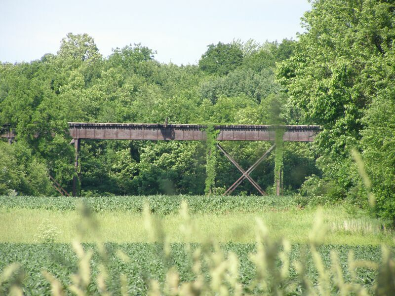 Abandoned Monon Trestle over Wildcat Creek, near Ockley, Indiana